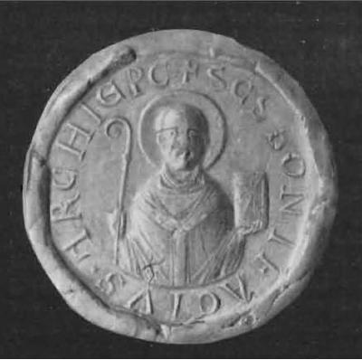 Seal of the Convent of the Fulda abbey